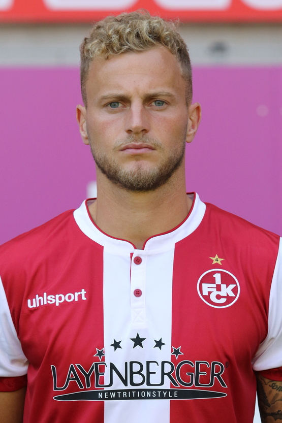 Christoph Hemlein (Nr. 17)